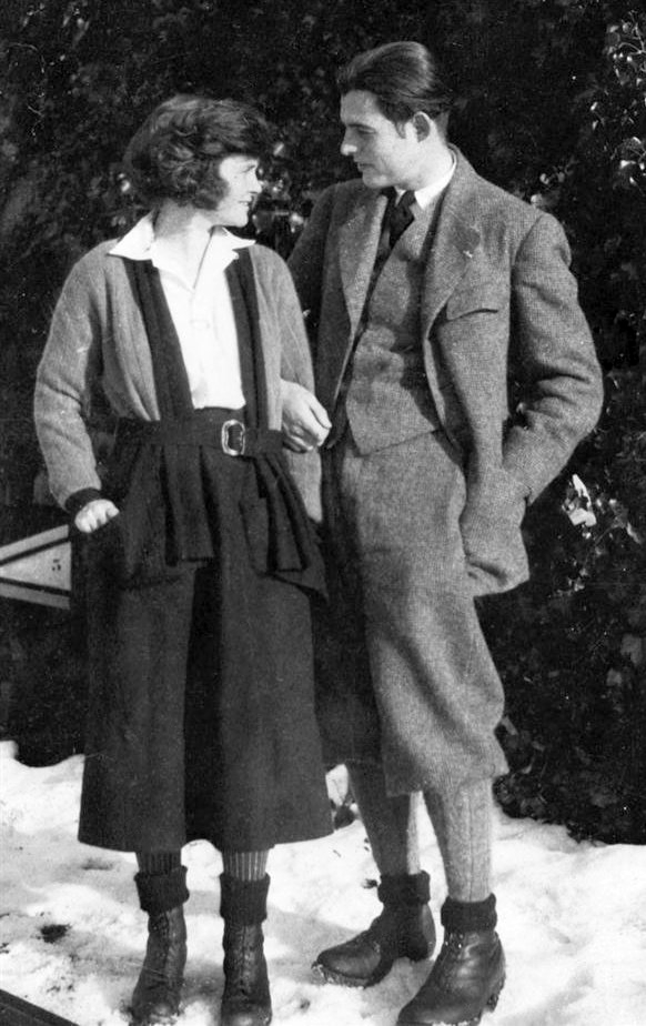 Winter, 1922 Ernest Hemingway and Hadley Hemingway in Chamby, Switzerland, 1922. Photograph in the Ernest Hemingway Photograph Collection, John F. Kennedy Presidential Library and Museum, Boston.